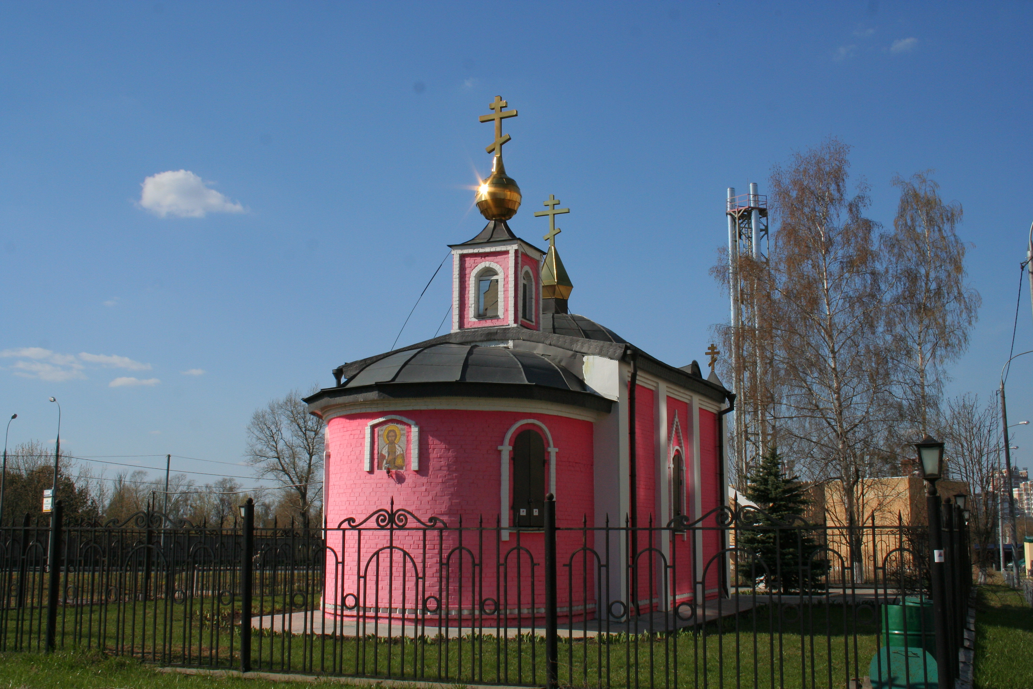 Church of Alexander Nevsky in Kurkino, Moscow